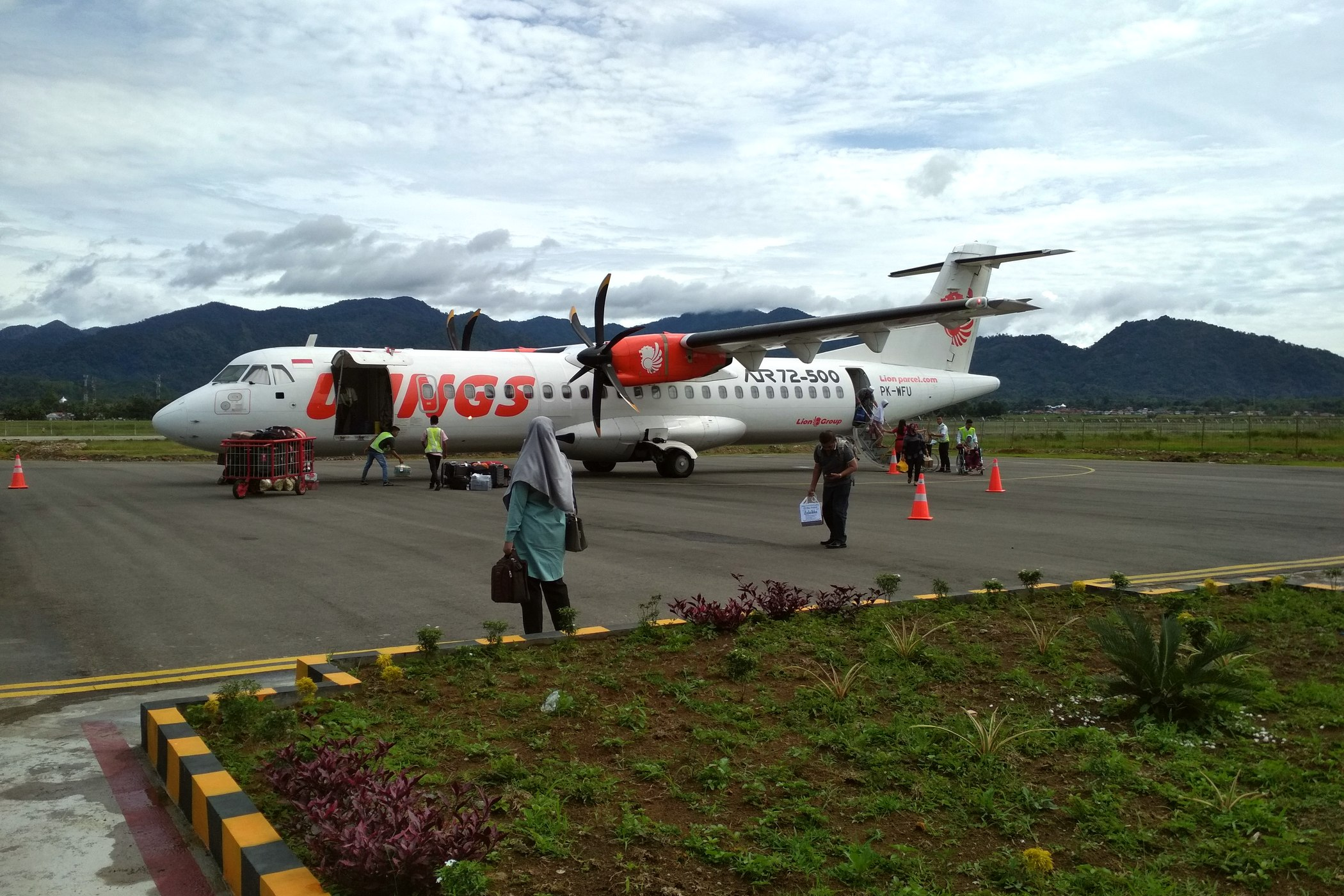 Wings' ATR 72-500 at Depati Parbo Airport apron in Sungai Penuh, Kerinci, Sumatra.